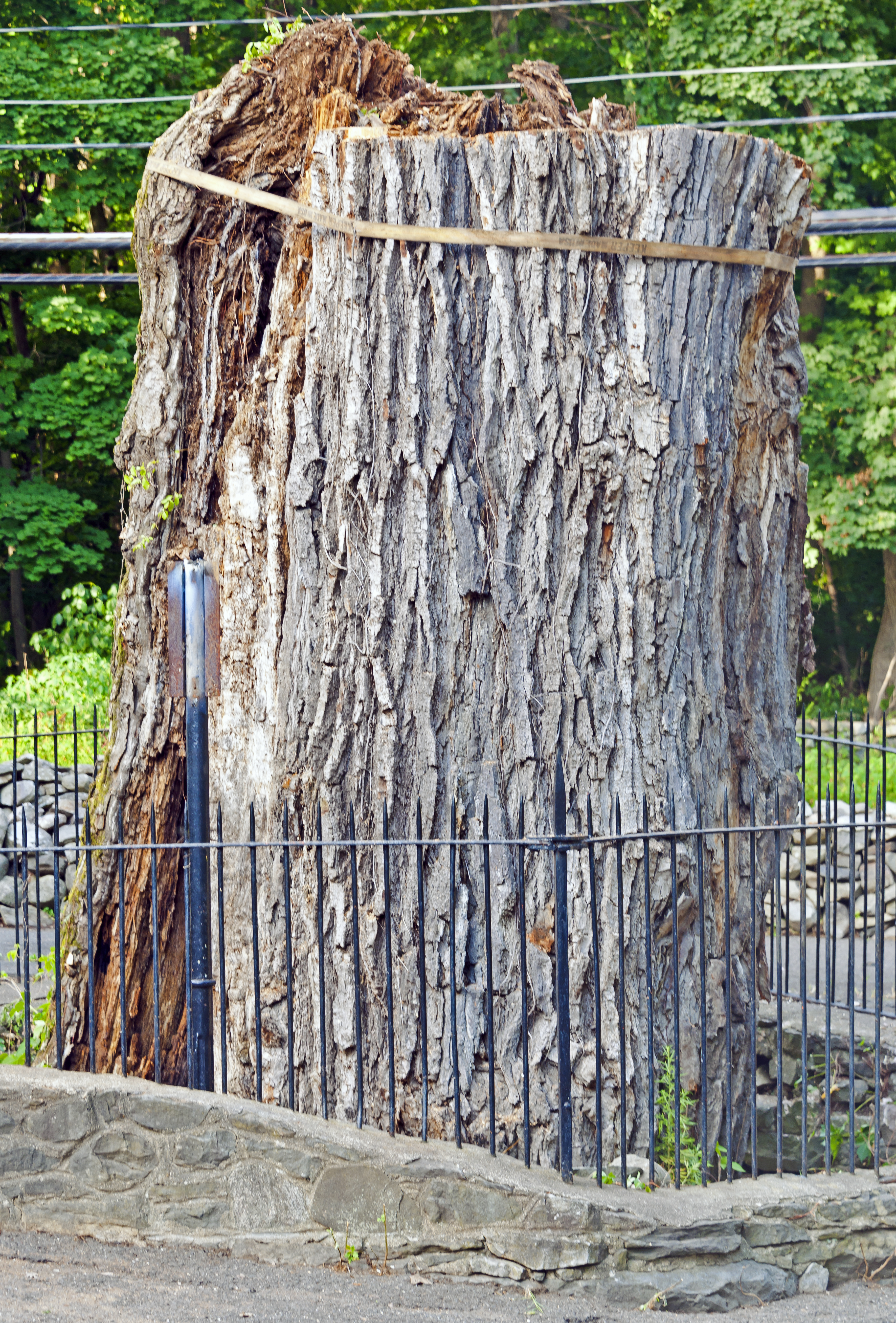 Remaining stump of the Balmville Tree, Balmville, NY, USA, after being cut down as a safety hazard